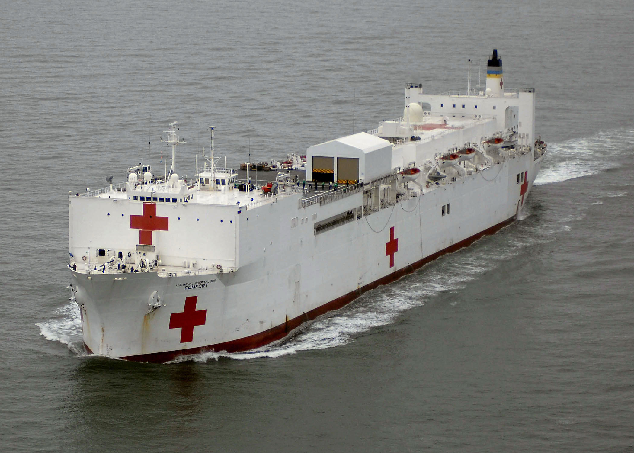 ATLANTIC OCEAN (June 15, 2007) - Military Sealift Command hospital ship USNS Comfort (T-AH 20) sails off the coast of Virginia shortly after getting underway from Naval Station Norfolk to start a multi-month humanitarian assistance deployment to Latin America and the Caribbean. Sailors aboard comfort expect to provide medical treatment to approximately 85,000 patients in a dozen countries. U.S. Navy photo by Mass Communication Specialist 2nd Class Joan Kretschmer (RELEASED)